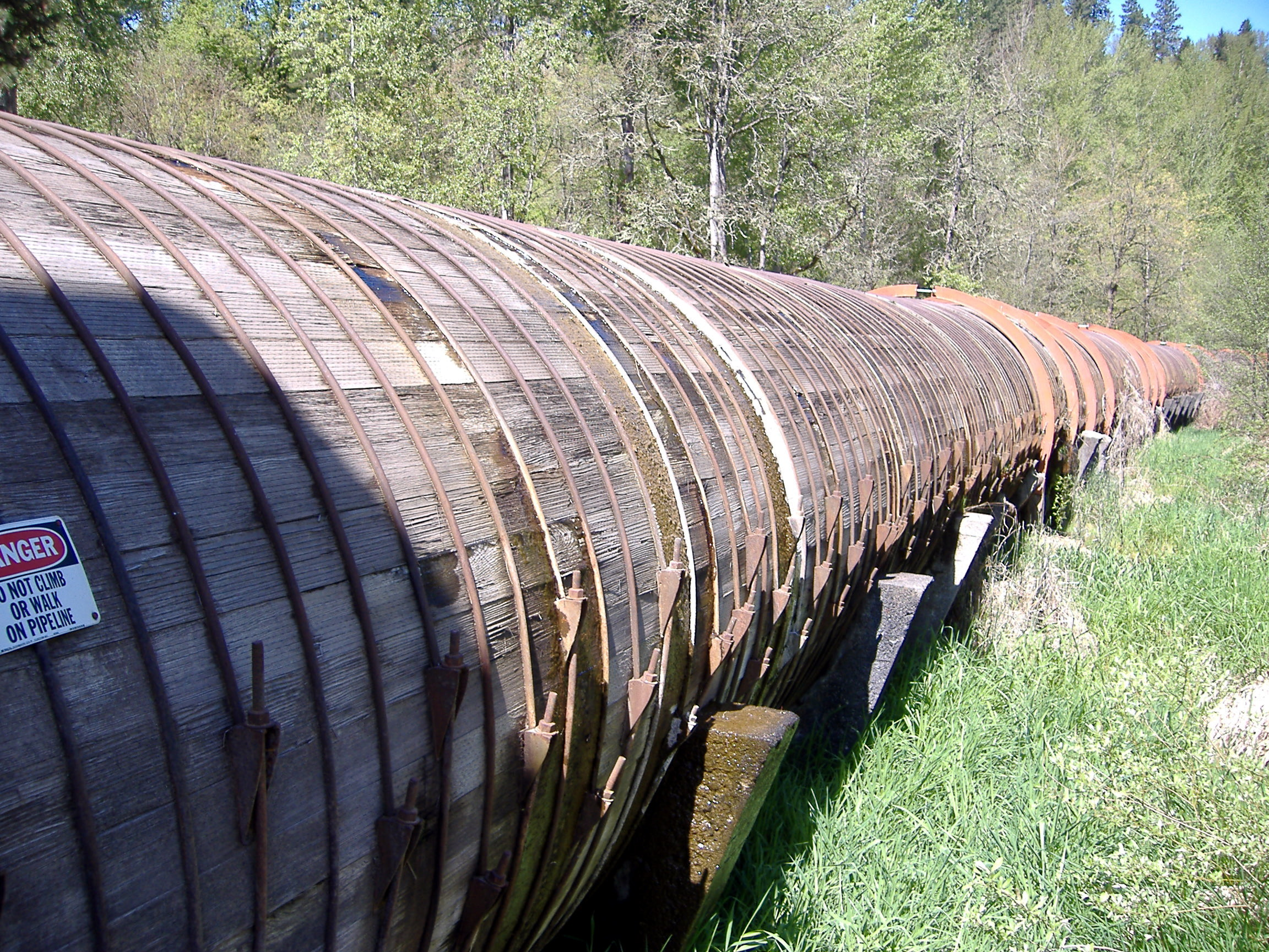 Woodstave pipe for hydroelectric power